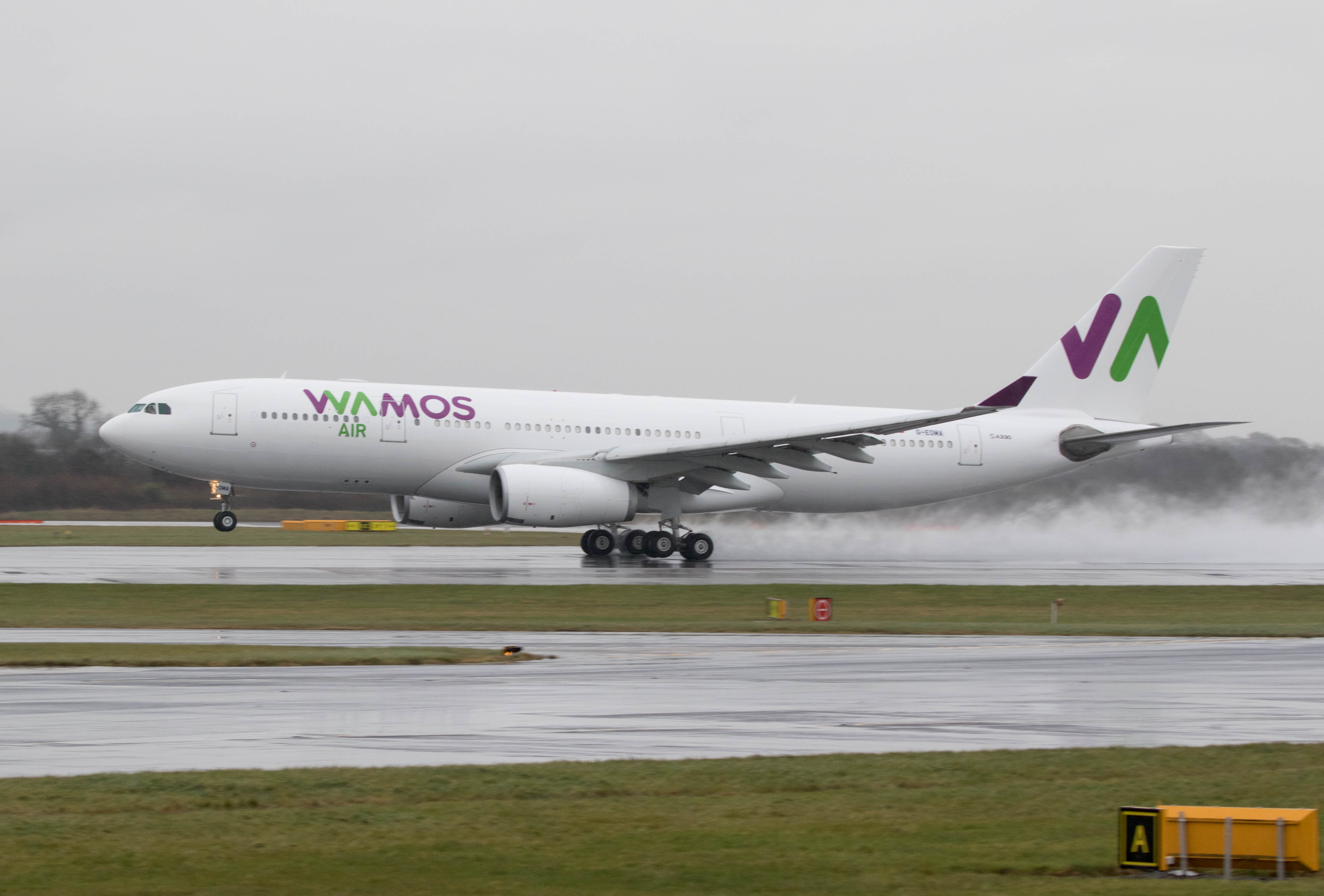 Seen departing Manchester on 09.03.16 after repainting at Air Livery, ex Monarch.